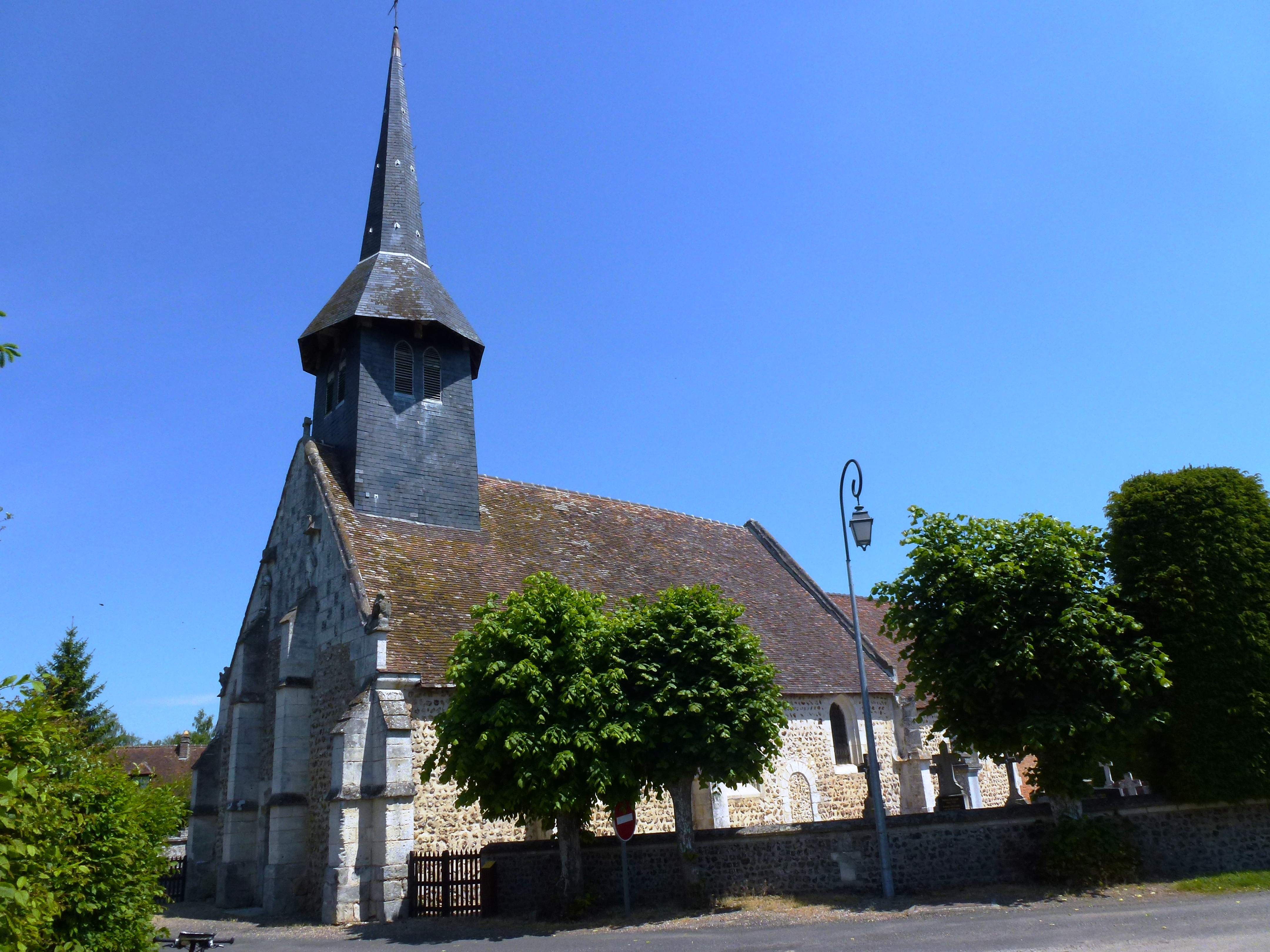 La Houssaye (Eure, Fr) église Saint-Aignan